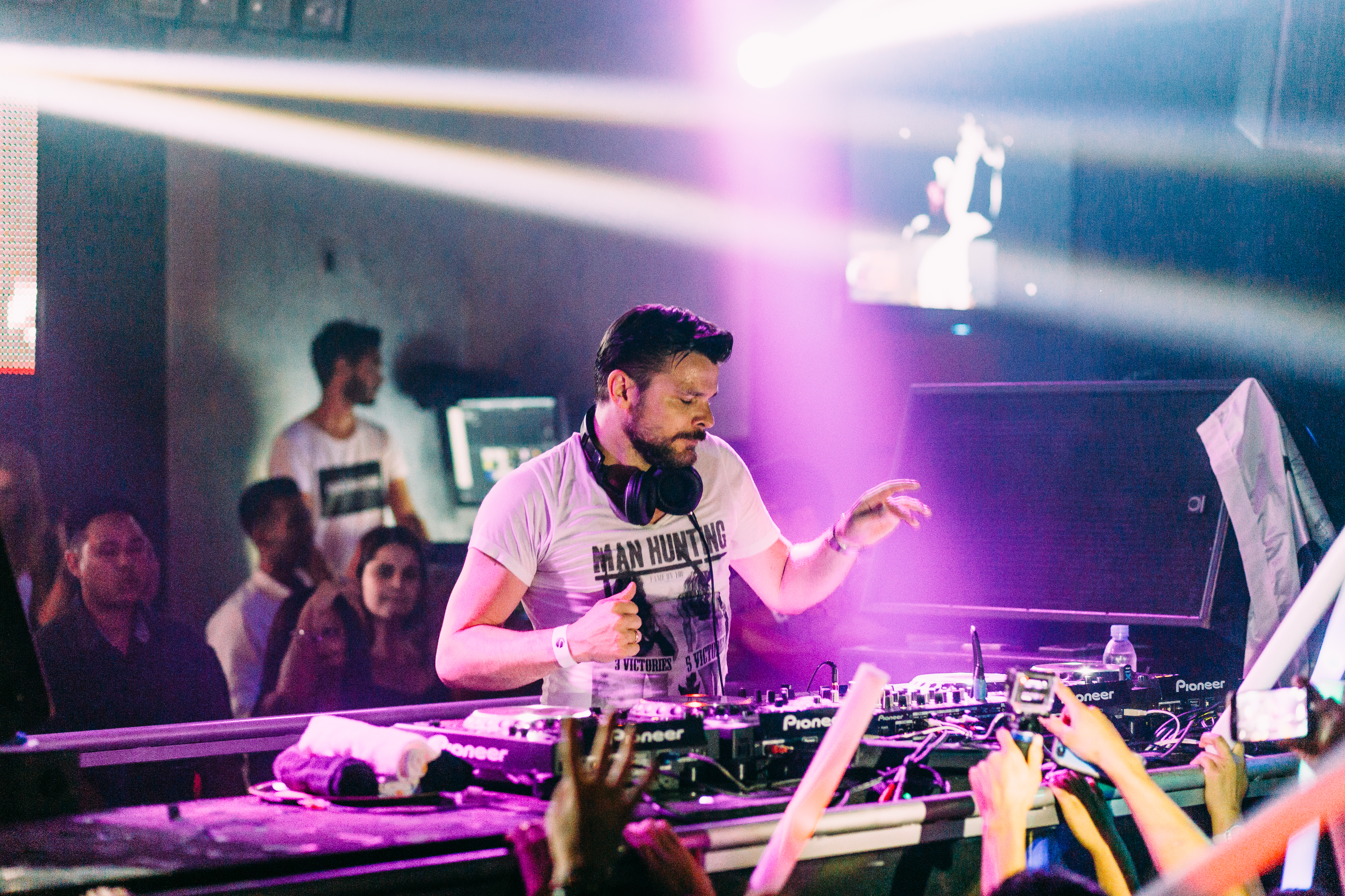 ATB Live @ Sutra OC